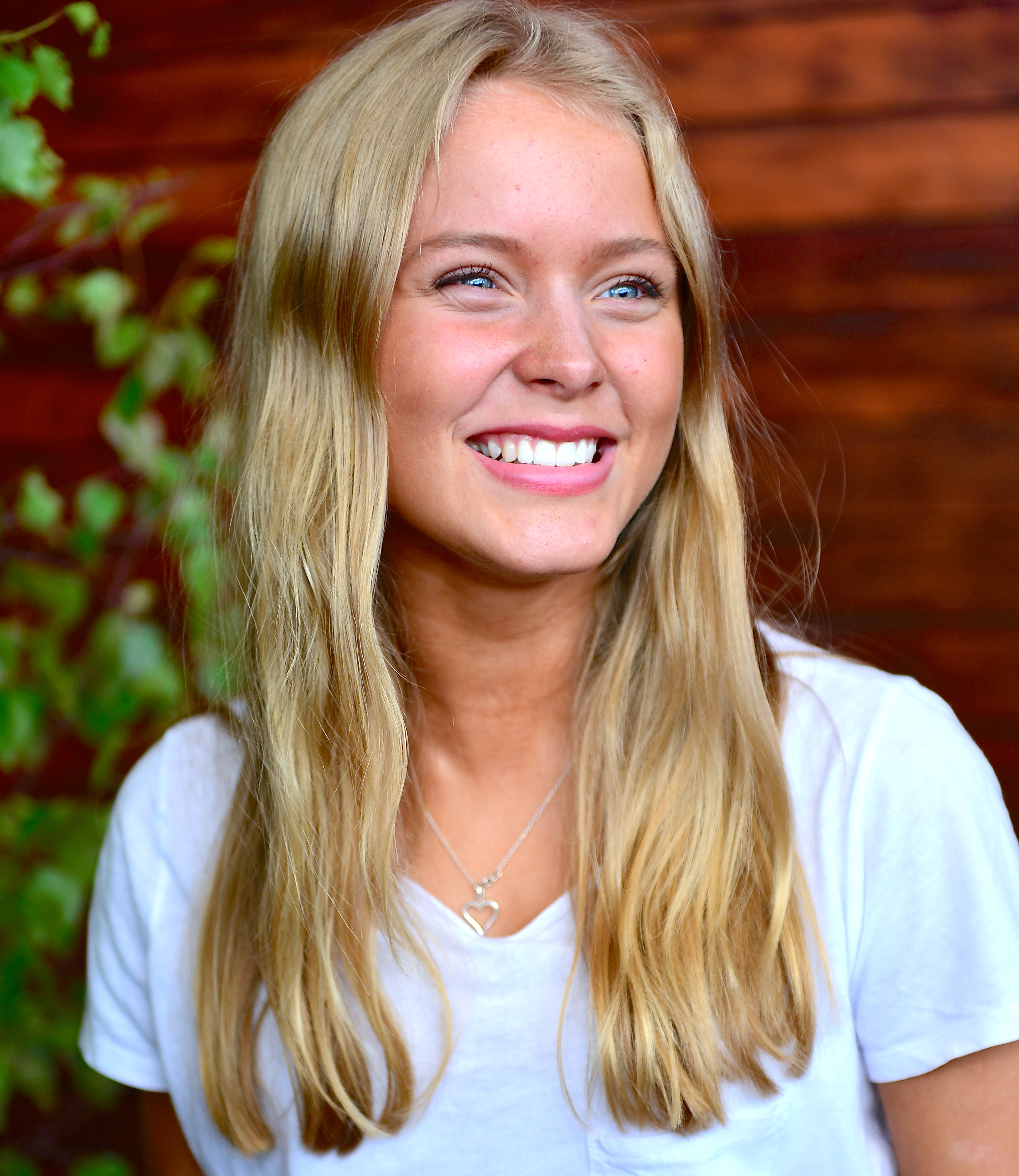 Zara Larsson during the presentation of this year's artists in "Allsång på Skansen" on June 11, 2013.